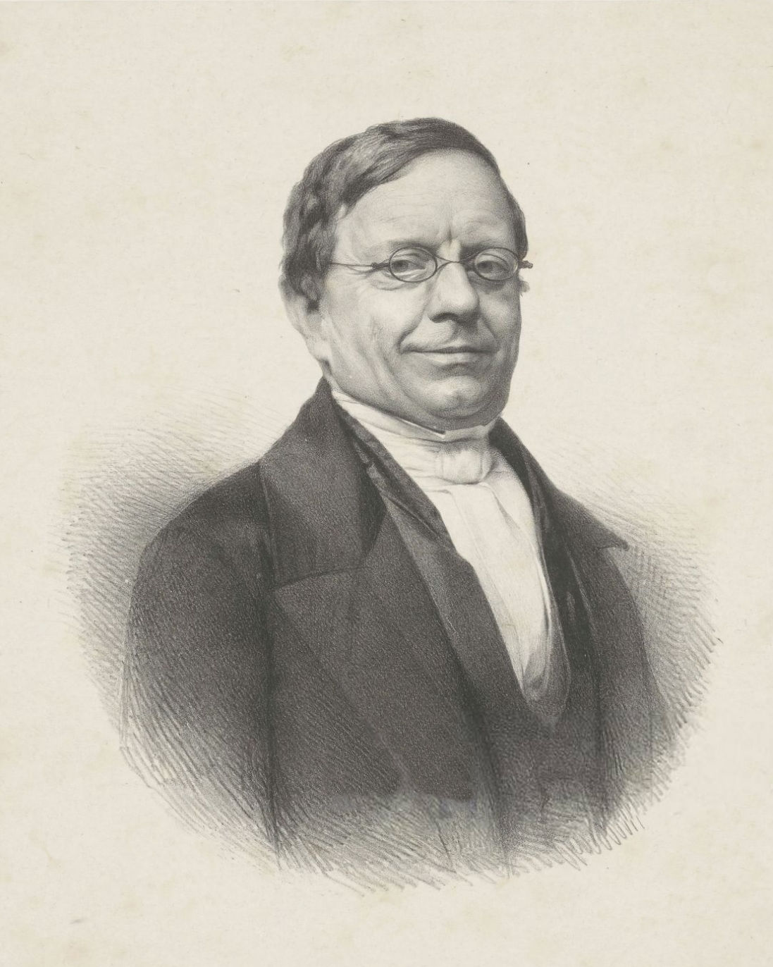 Abraham Jacob van der Aa (1792-1857), Dutch author